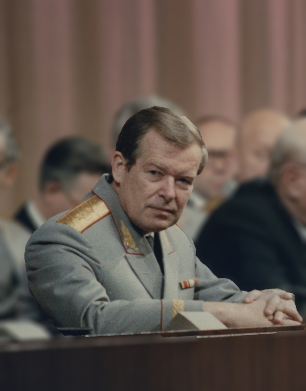 Vadim Bakatin: Bakatin is clearly photo shopped, and poorly, into his profile image.